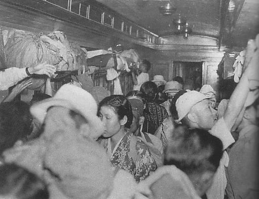 Crowded train in Occupied Japan